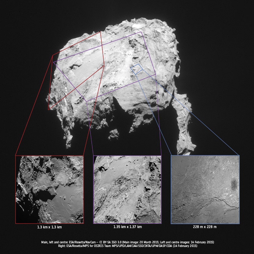 Comet 67P on 20 March with the 14 February flyby images added as insets. The image outlines vary in shape due to the change in relative position of the comet and spacecraft on the times/dates the images were taken. More information in the blog post Imhotep Up - CometWatch 20 March. Credit [main, left and centre image]: ESA/Rosetta/NAVCAM – CC BY-SA IGO 3.0 Credit [right image]: ESA/Rosetta/MPS for OSIRIS Team MPS/UPD/LAM/IAA/SSO/INTA/UPM/DASP/IDA